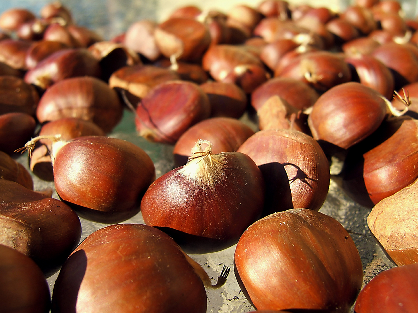 Sweet Chestnut